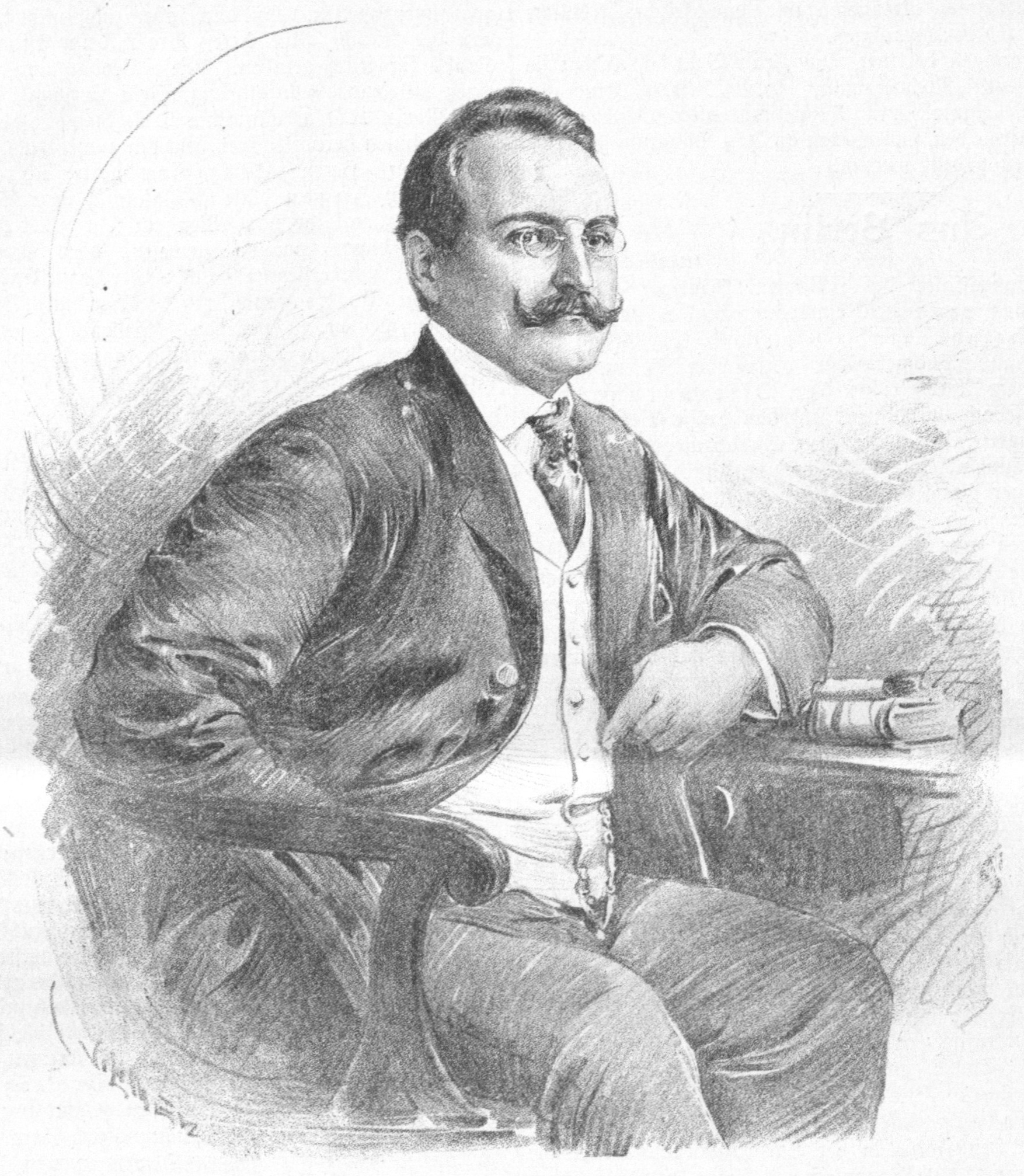 Portrait of Rainer Simons (1869-1934), German and Austrian singer and director of theaters.